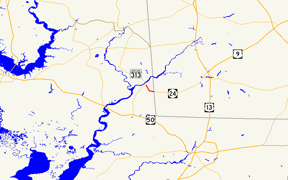 Map of Maryland Route 348